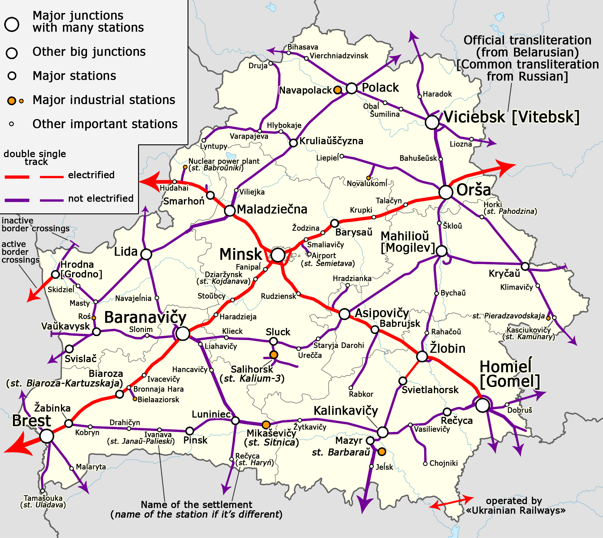 Map of railways in Belarus